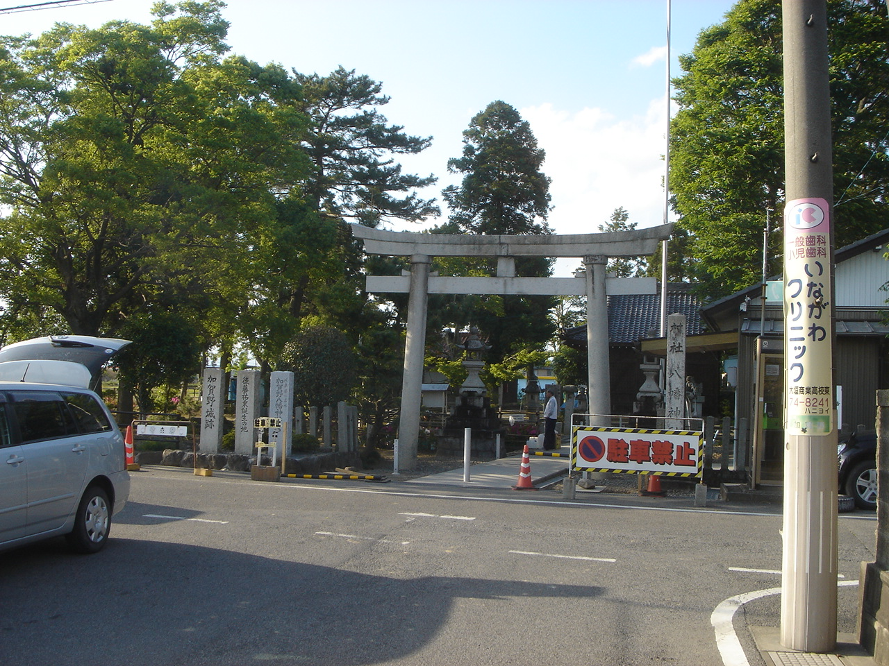 Kagano Hachiman Jinja, in Ogaki,Gifu,Japan